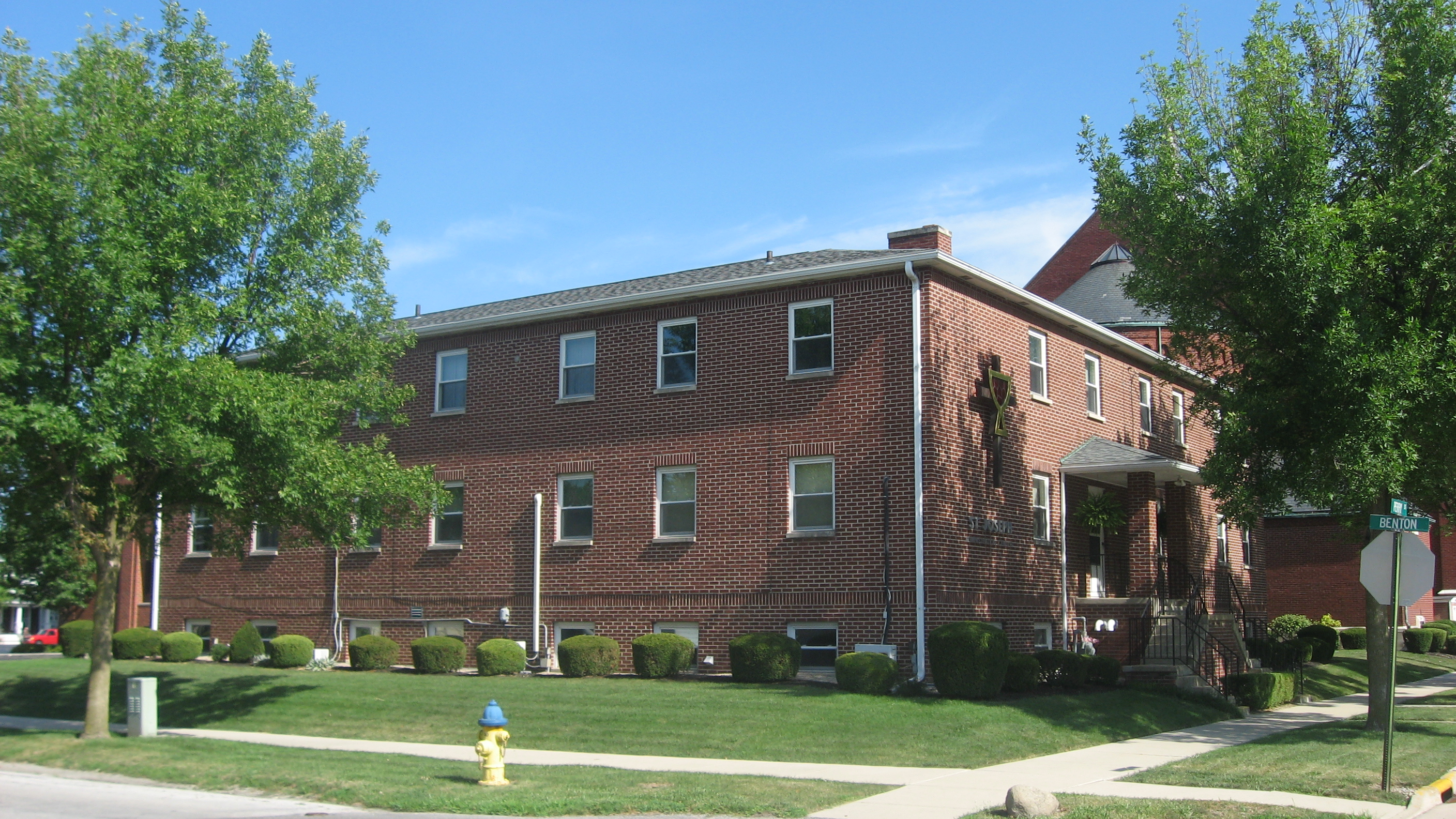 Front of the parish offices for St. Joseph's Catholic Church, located on the northwestern corner of the intersection of Benton and Perry Streets in downtown Wapakoneta, Ohio, United States.